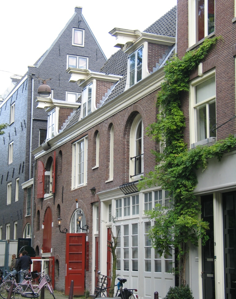 Former foundry of François and Pierre Hemony between Molenpad and Leidsegracht in Amsterdam, the Netherlands